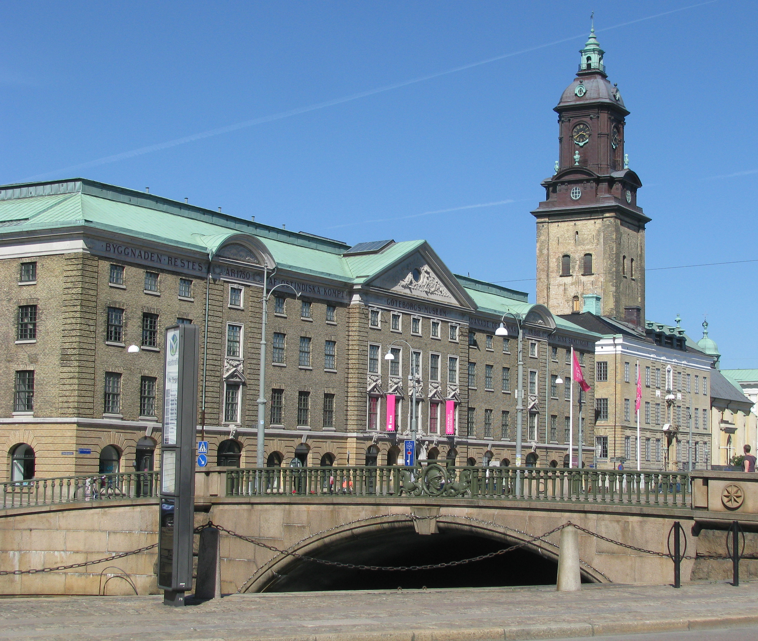 The Swedish East-Indie Company building in Gotenburg, now City-Museum